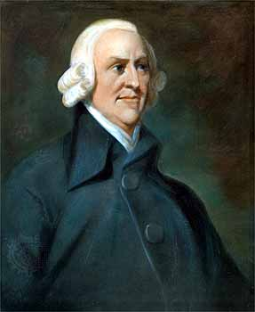 Portrait of Adam Smith (1723-1790)